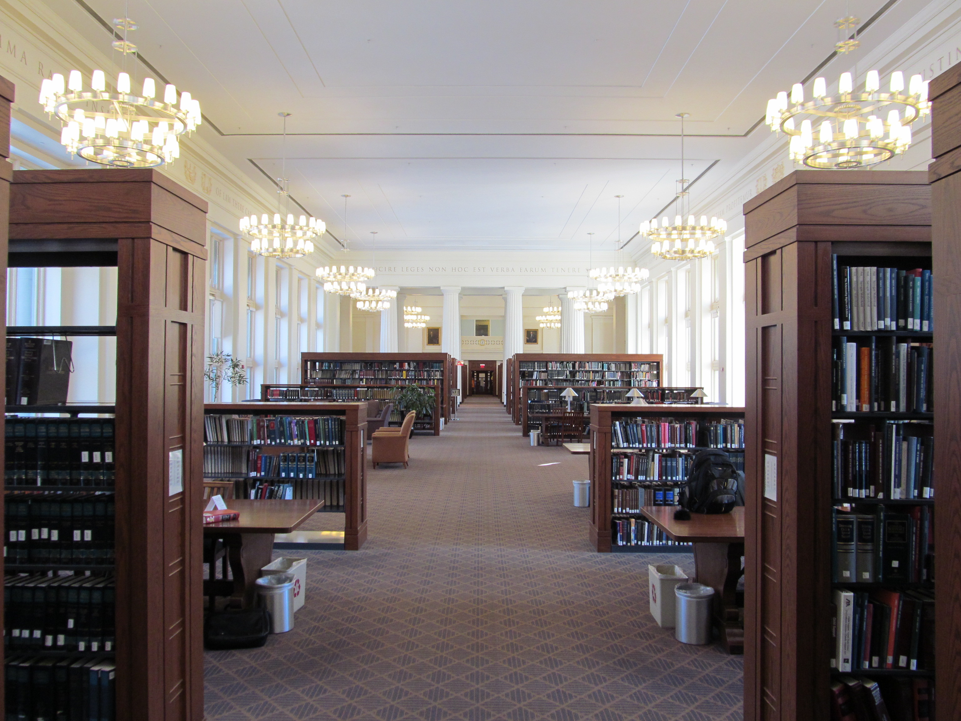 Reading Room, Langdell Hall, Harvard University, Cambridge Massachusetts